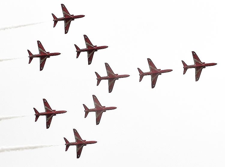 The BAE Hawks of the RAF Red Arrows display team, flying in Concorde formation, commemorating the retirement of the Concorde passenger jet.